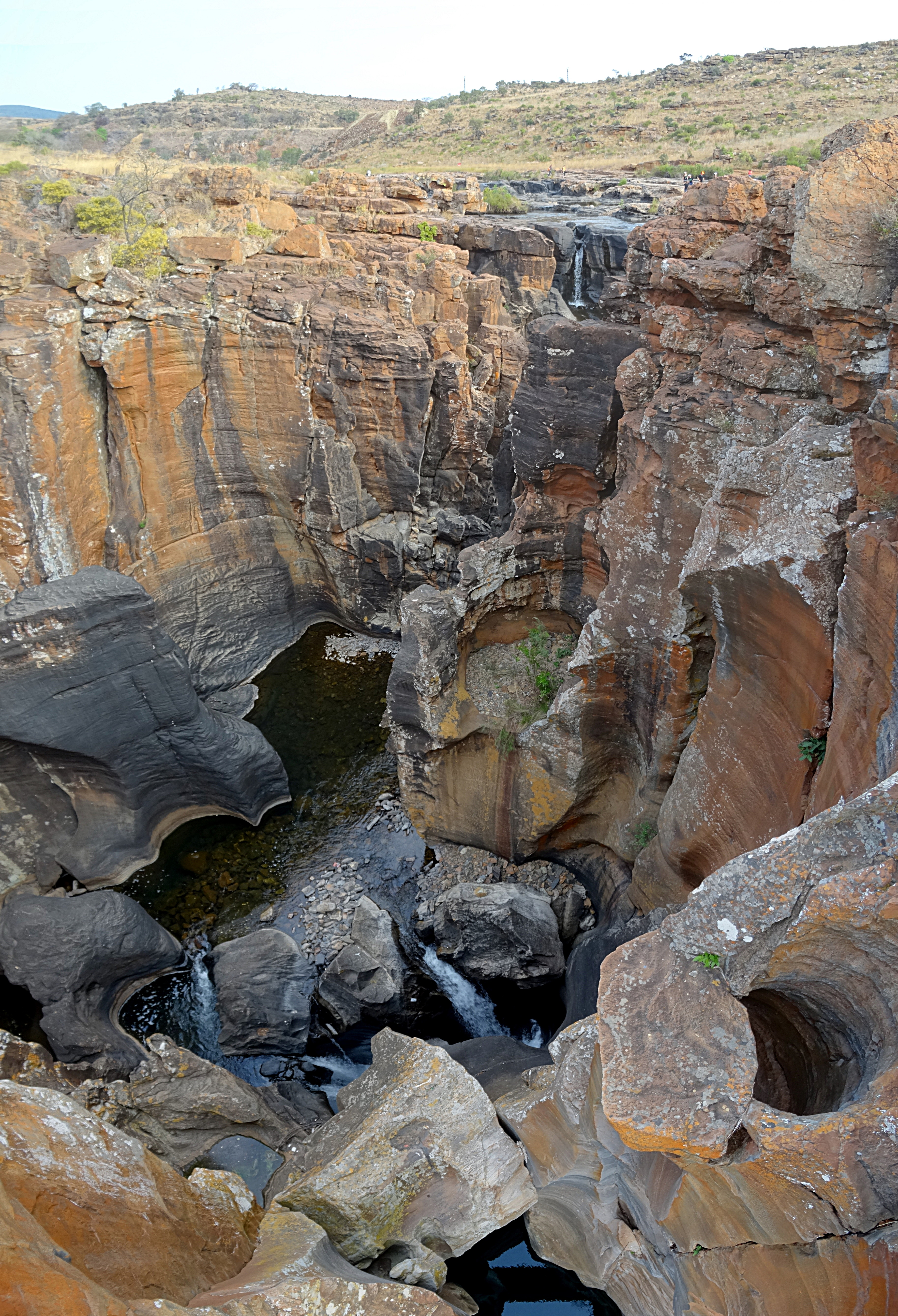 Potholes at Bourke's Luck, near Graskop, Mpumalanga, South Africa